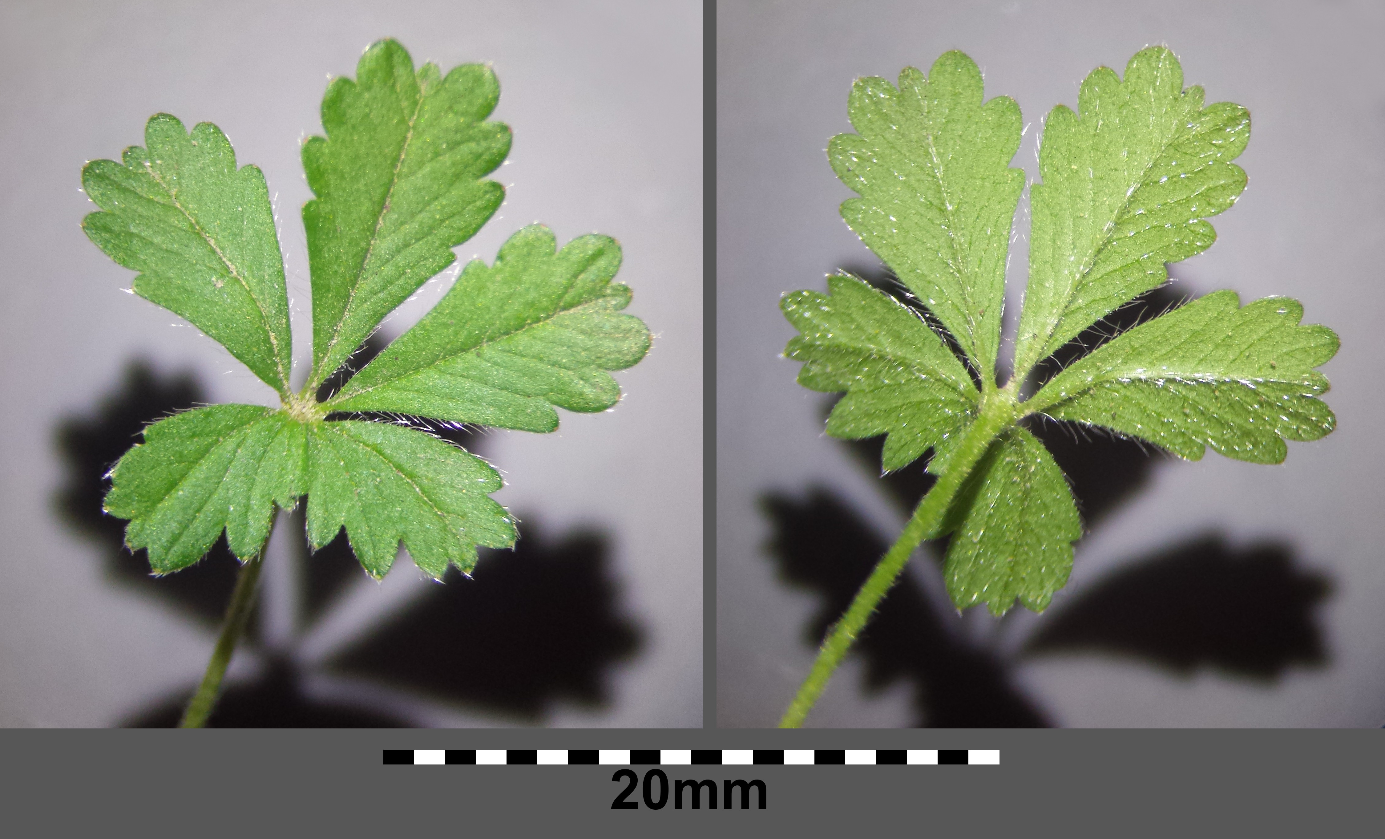 Leaf (top and bottom side) Taxonym: Potentilla pusilla ss Fischer et al. EfÖLS 2008 ISBN 978-3-85474-187-9 Location: Tresdorf, district Korneuburg, Lower Austria - ca. 180 m a.s.l. Habitat: slope